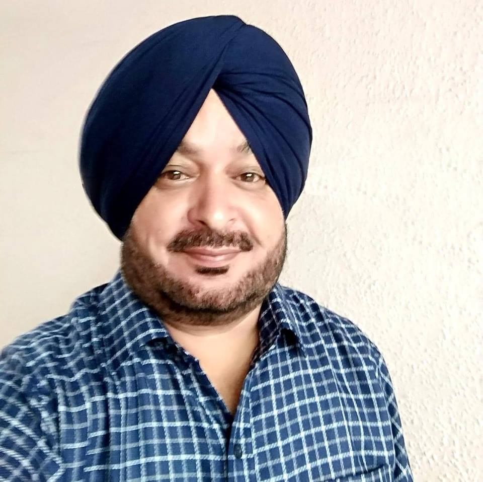 Poet(Punjabi,Hindi), Translator & Editor